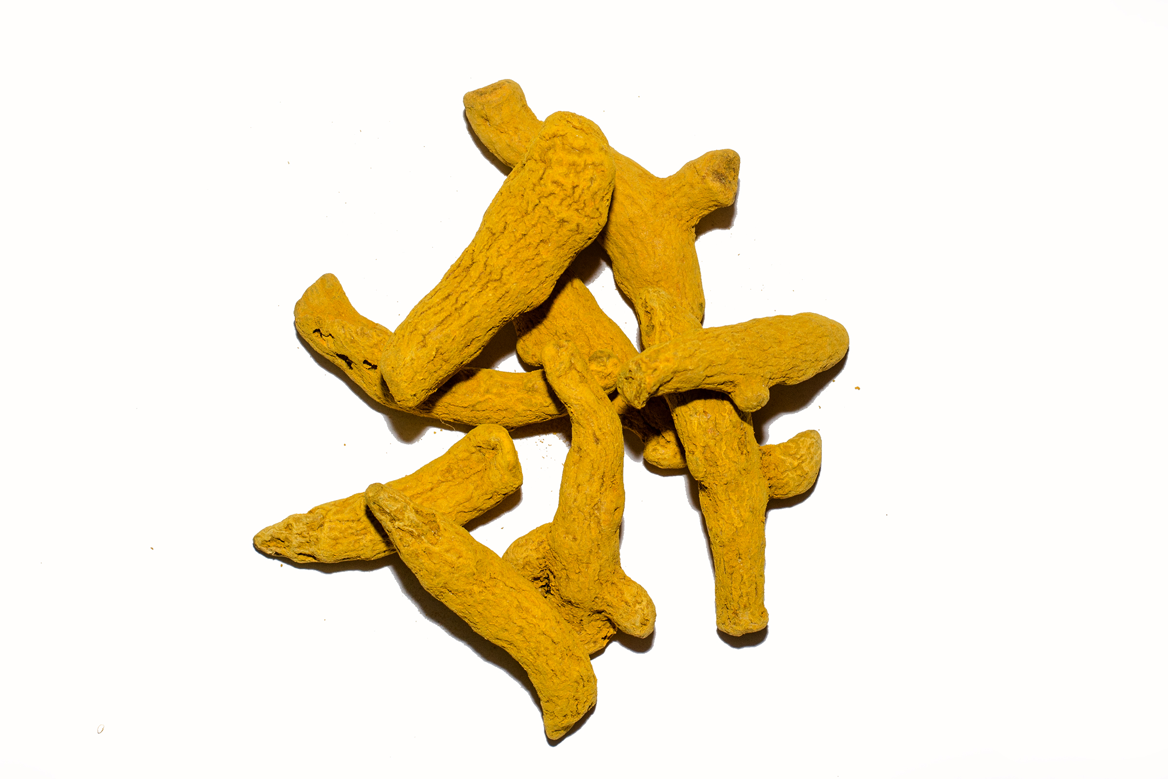 Turmeric